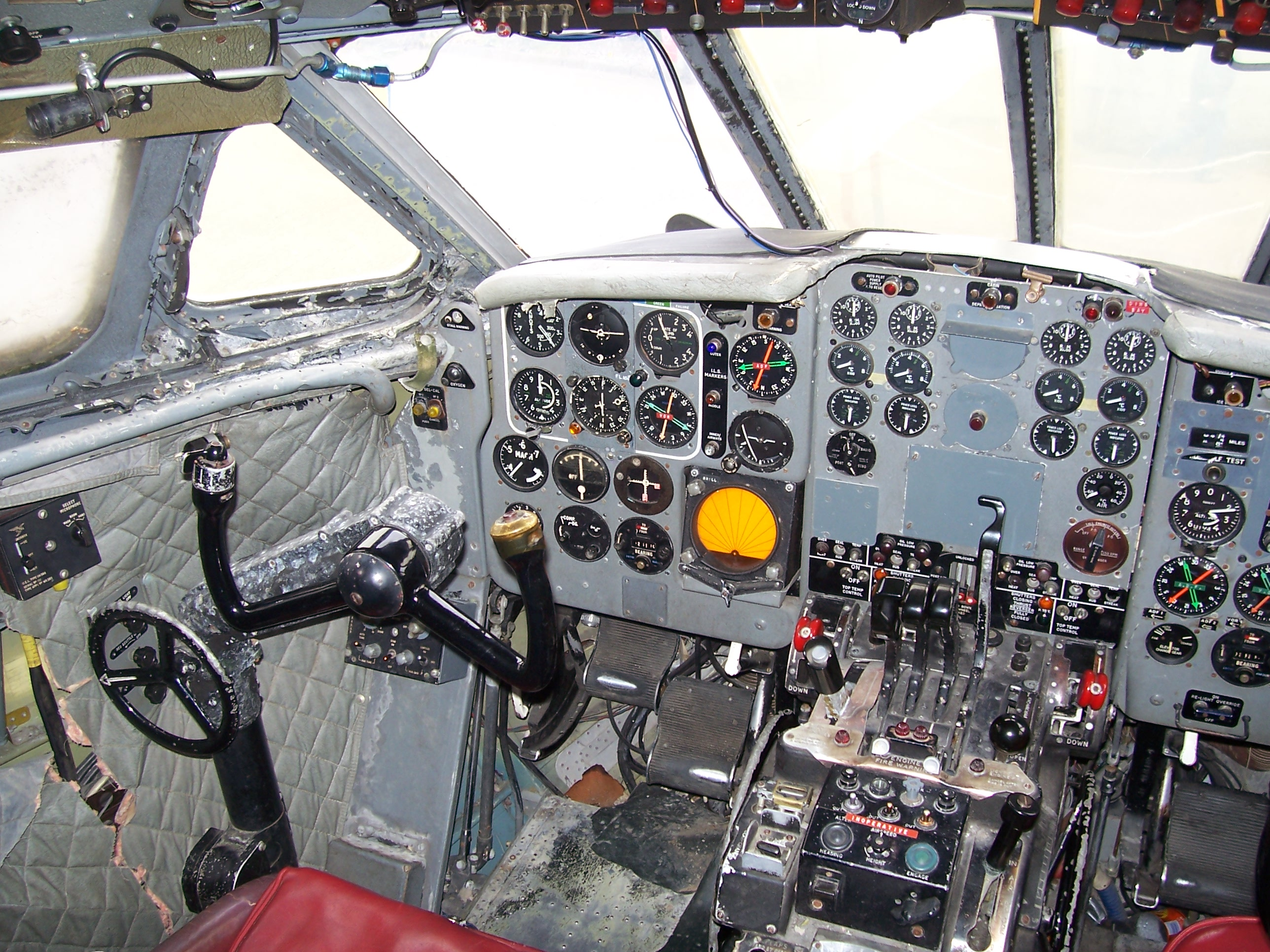 DH Comet 2 flight deck, DH Aircraft Heritage Centre